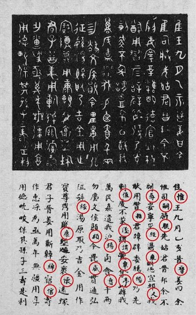 "Jin Jiang-ding inscription, as transcribed by Lü Dalin in the Kaogu Tu 考古圖 (comp. 1092)." (SCHNAPP 2013, p. 241)